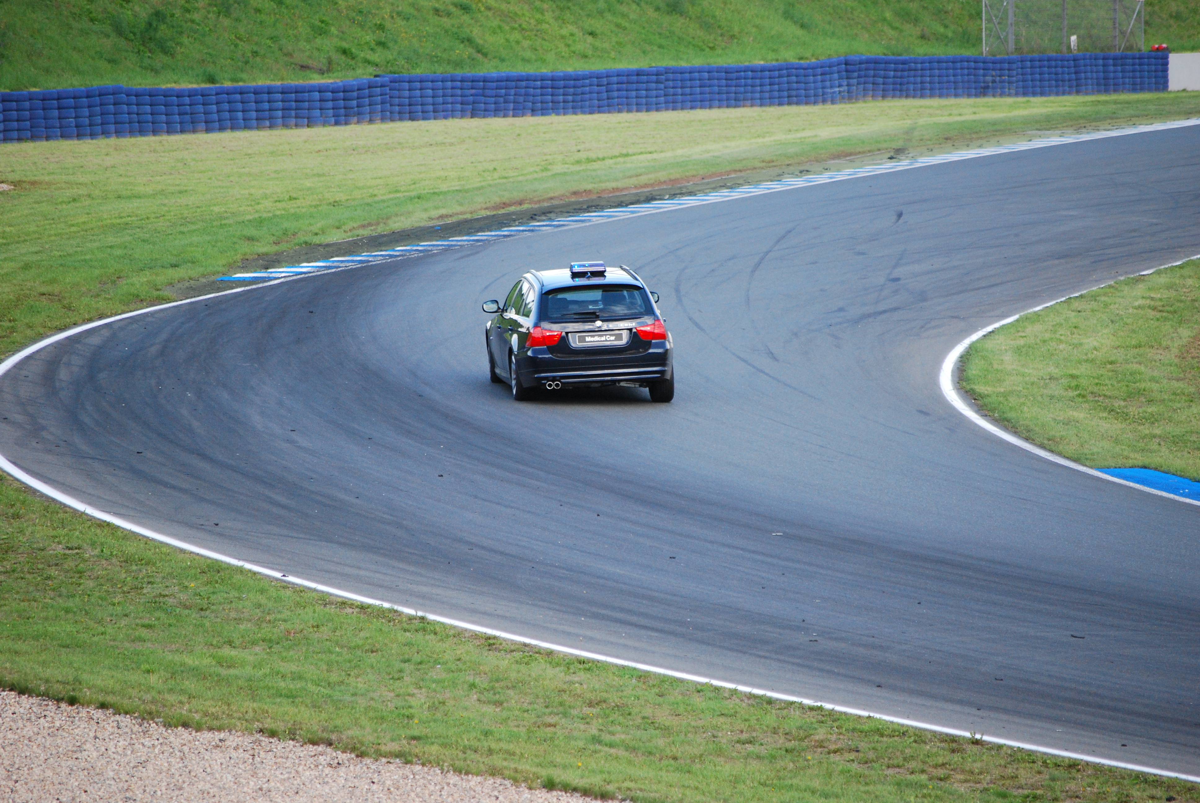 The Medical Car of Motorsport Arena Oschersleben. Its a BMW 330d Touring.